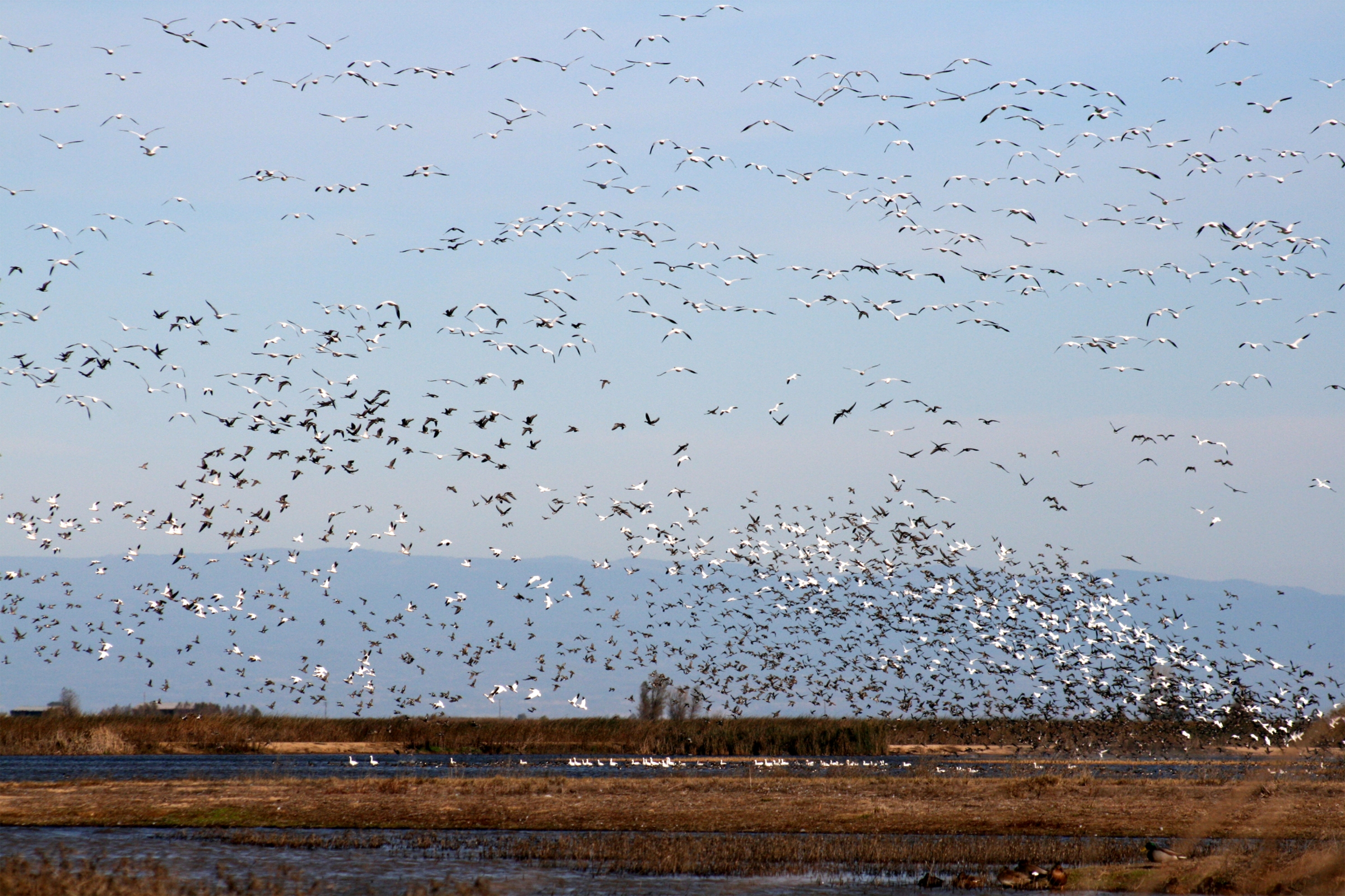 Snow geese, Anser caerulescens and ducks at Sacramento National Wildlife Refuge